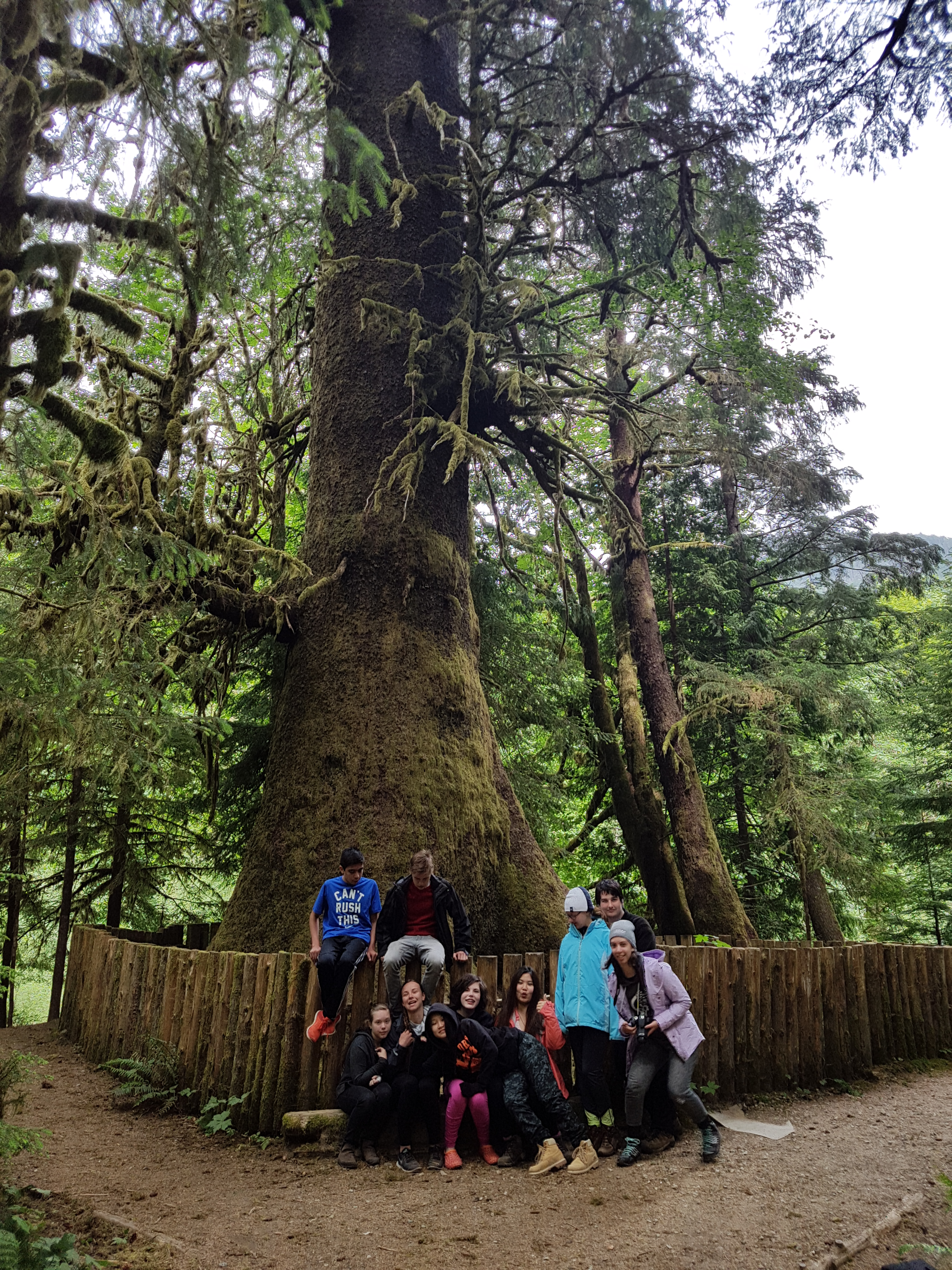 The Harris Creek Sitka Spruce is a large sitka spruce dominating the other trees in the area of Harris Creek on Vancouver Island.